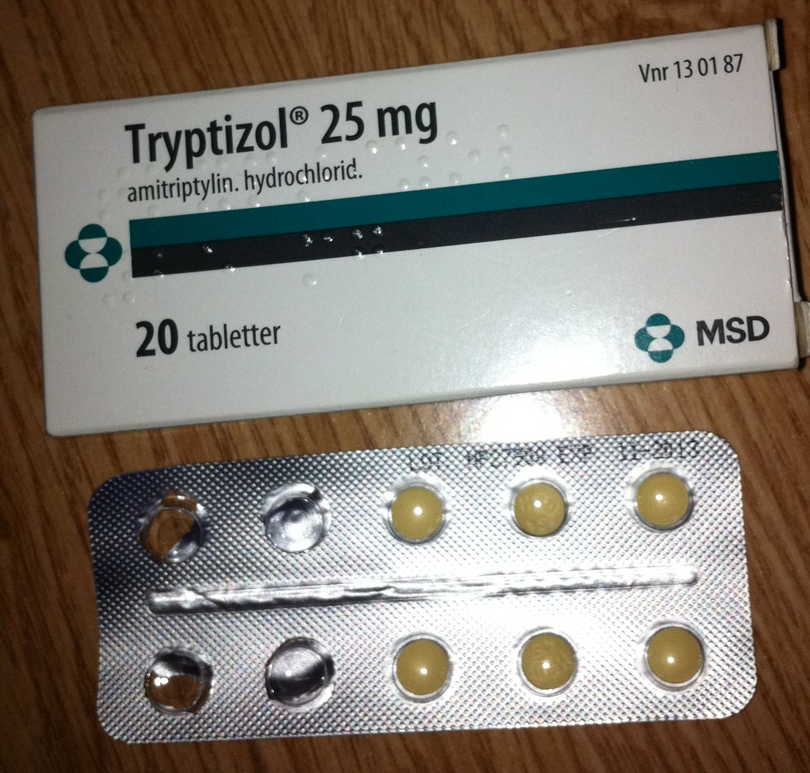 Tryptizol (swedish variants)